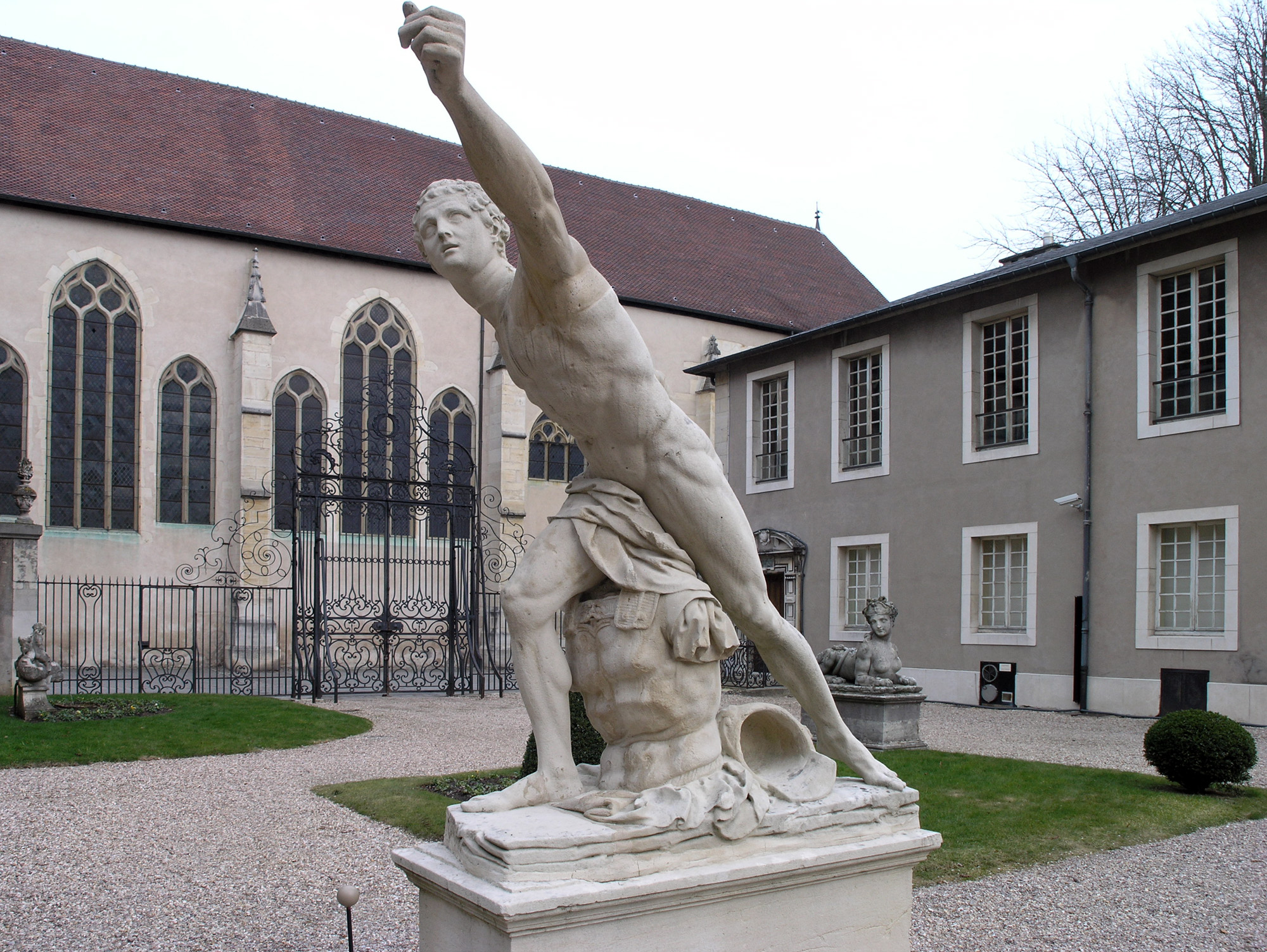 Statue of a gladiator, 18th c. copy from the Borghese type (in the Louvre museum). Musée lorrain, Nancy Photograph taken by Marsyas 10:45, 26 February 2006 (UTC)